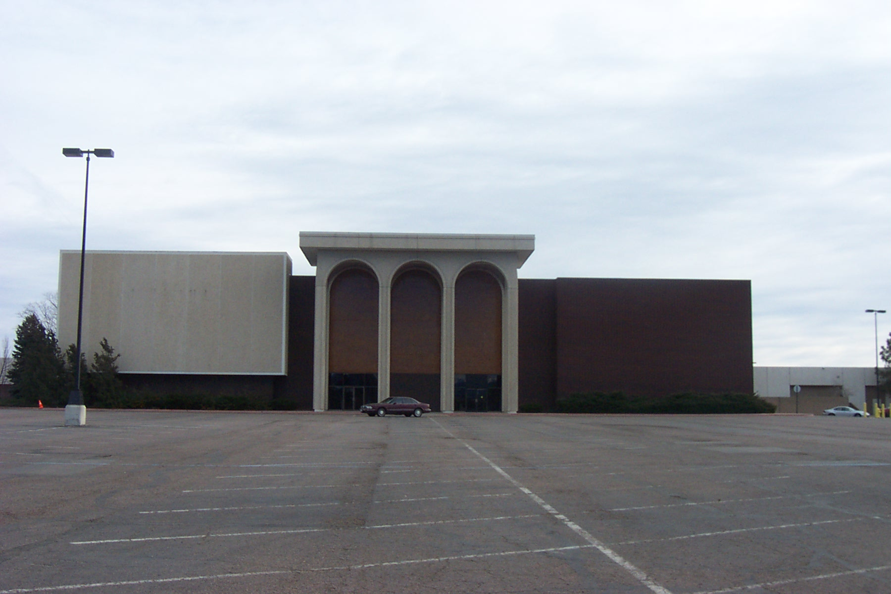 The former JCPenney store at Southglenn Mall in Centennial, Colarado.